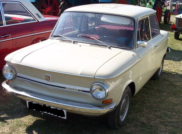 NSU Prinz